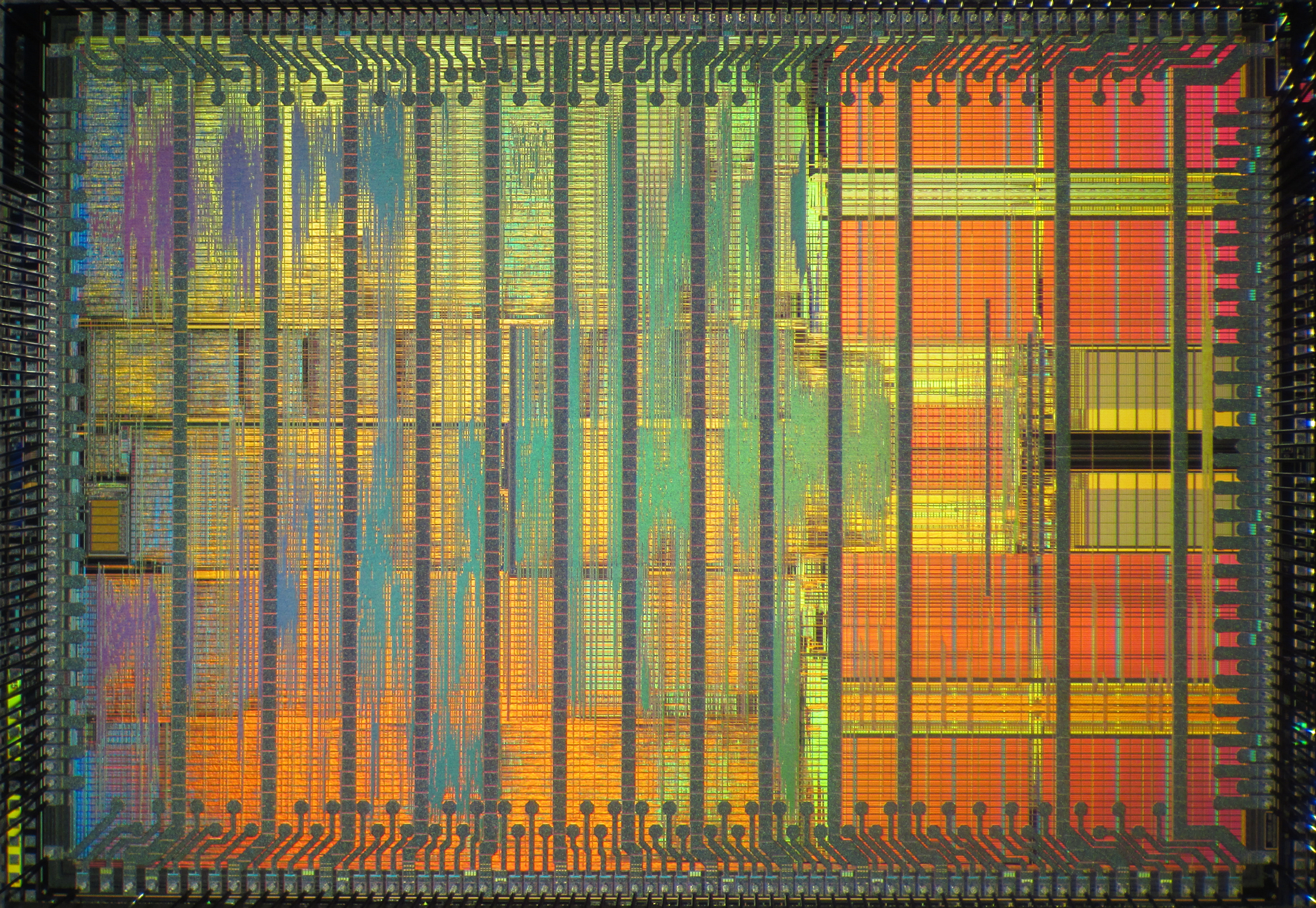 Die shot of Motorola PowerPC 603e microprocessor (XPC603EFE117MJ, 3F19T mask).